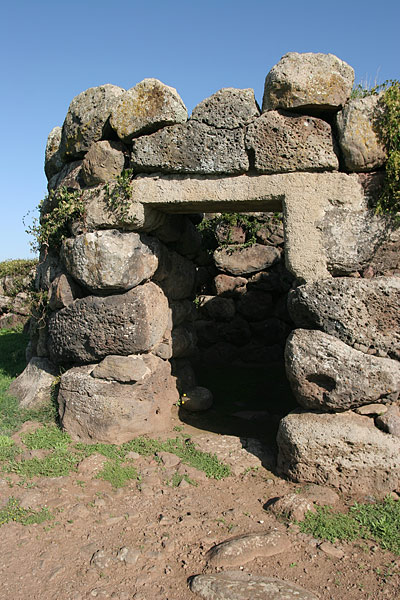 One of two towers in the surrounding wall of Nuraghe Losa (Abbasanta, Sardignia).